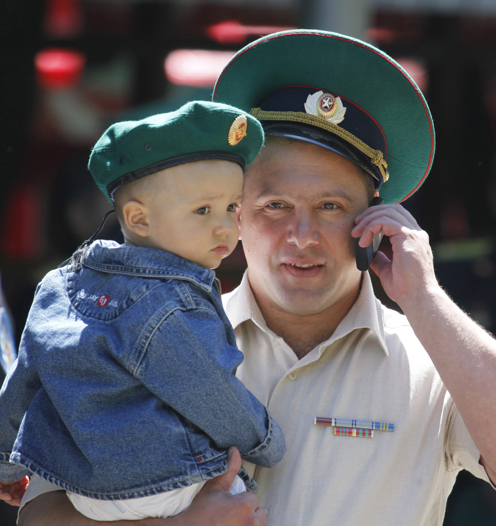 “Stavropol celebrates Border Guards' Day”. A former border guard holds his kid and speaks by the phone while attending the Border Guards' Day celebrations at the city's Victory Park.